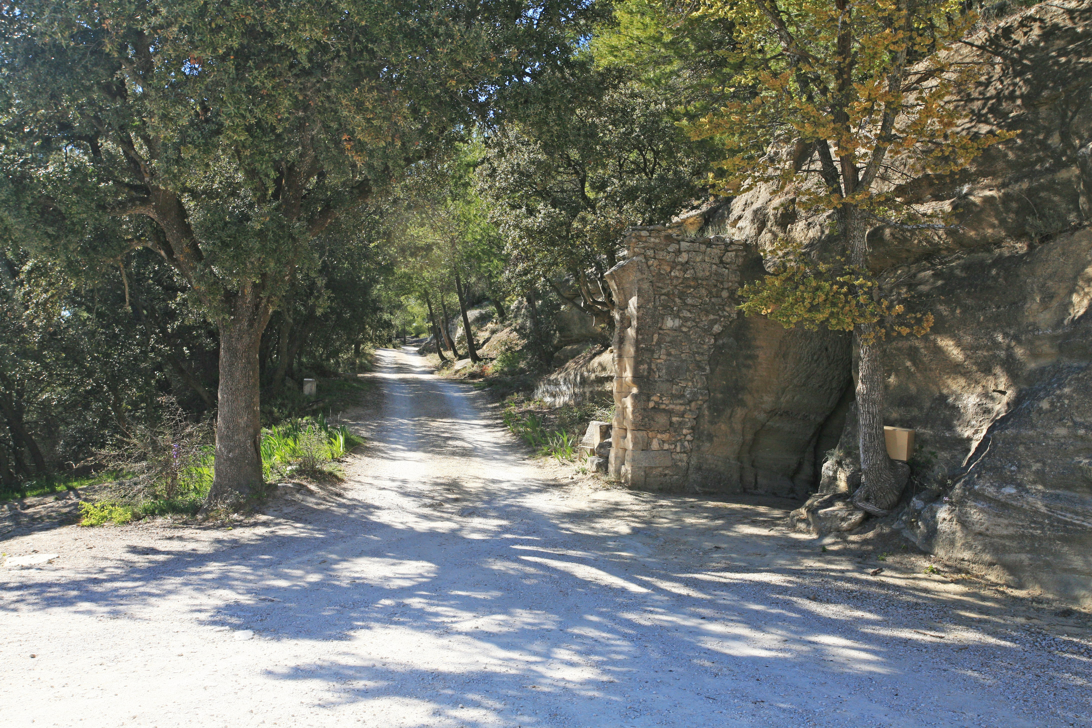 The access for the Prieuré st Hilaire in Menerbes, France